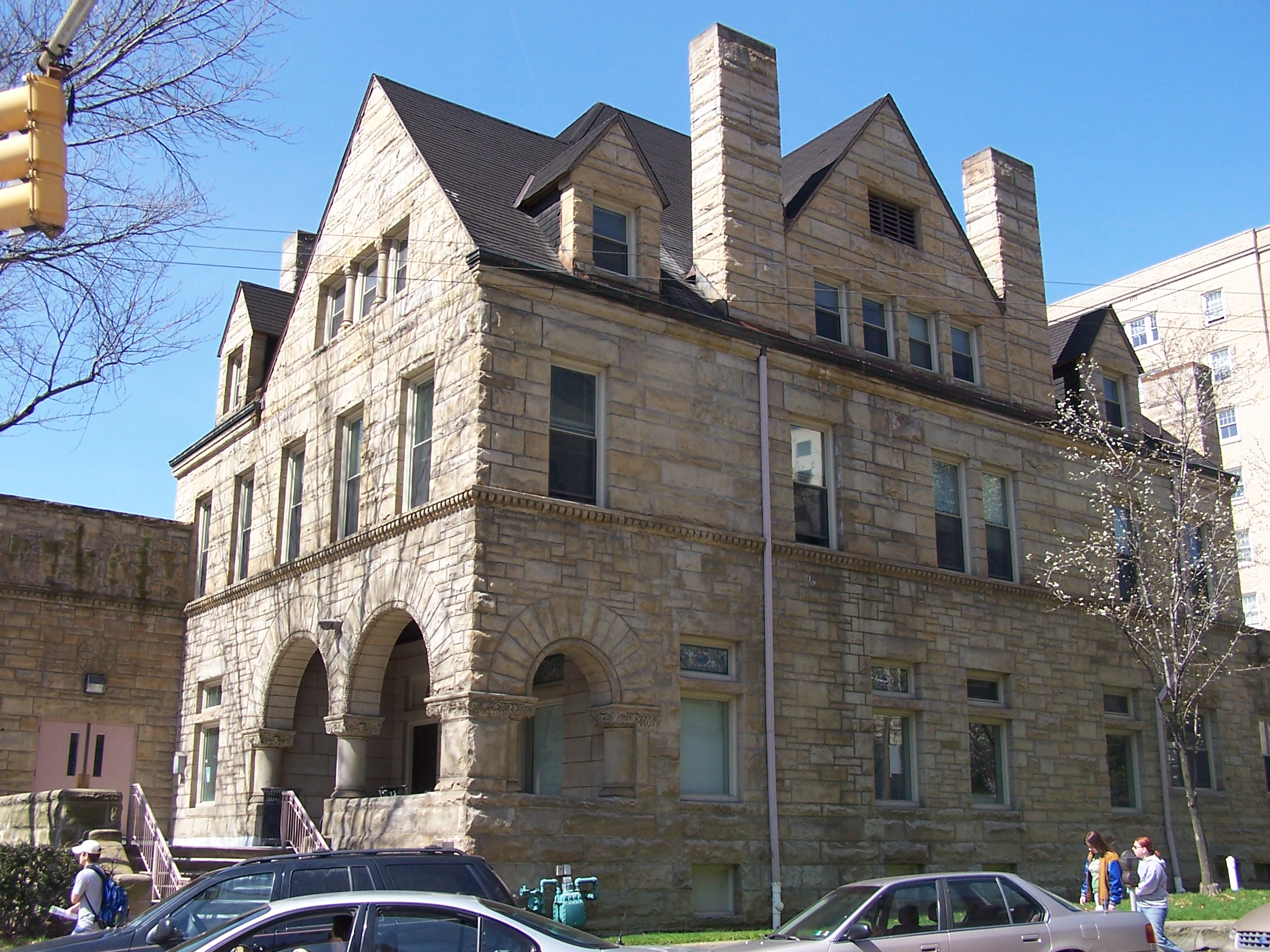 Richardsonian Romanesque by Frederick Osterling. Building is believed to have been the manse for a Presbyterian church that is no longer there. Now a part of the University of Pittsburgh. The stonework is interesting. At the bottom on the water table very large stones are used. On the first story, the stone is finer and laid up randomly. On the second story, regular courses of uniform thickness ashlar are used. During the Gothic Revival, Pugin pointed out that random stonework avoids distracting attention from other features. Regular coursing forms patterns which become a features themselves. Osterling was a devoted Medievalist, and so was no doubt familiar with Pugin and his theories - and applied them to Romanesque.